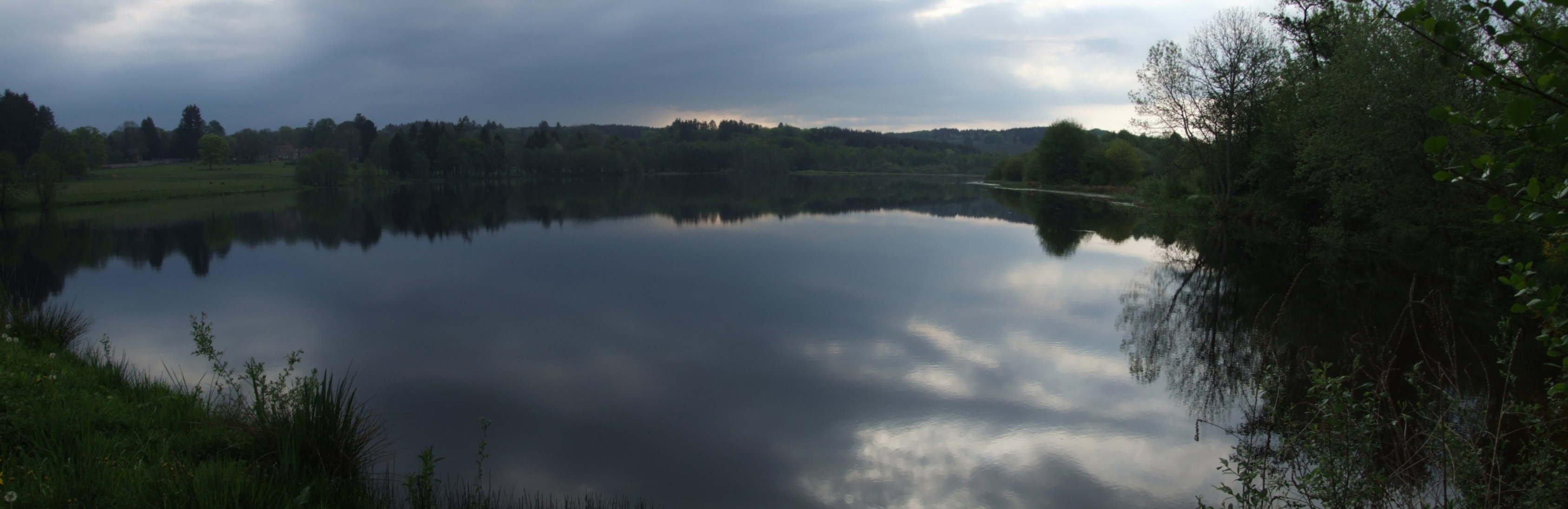 Saint-Brisson, Nievre, Burgundy, FRANCE